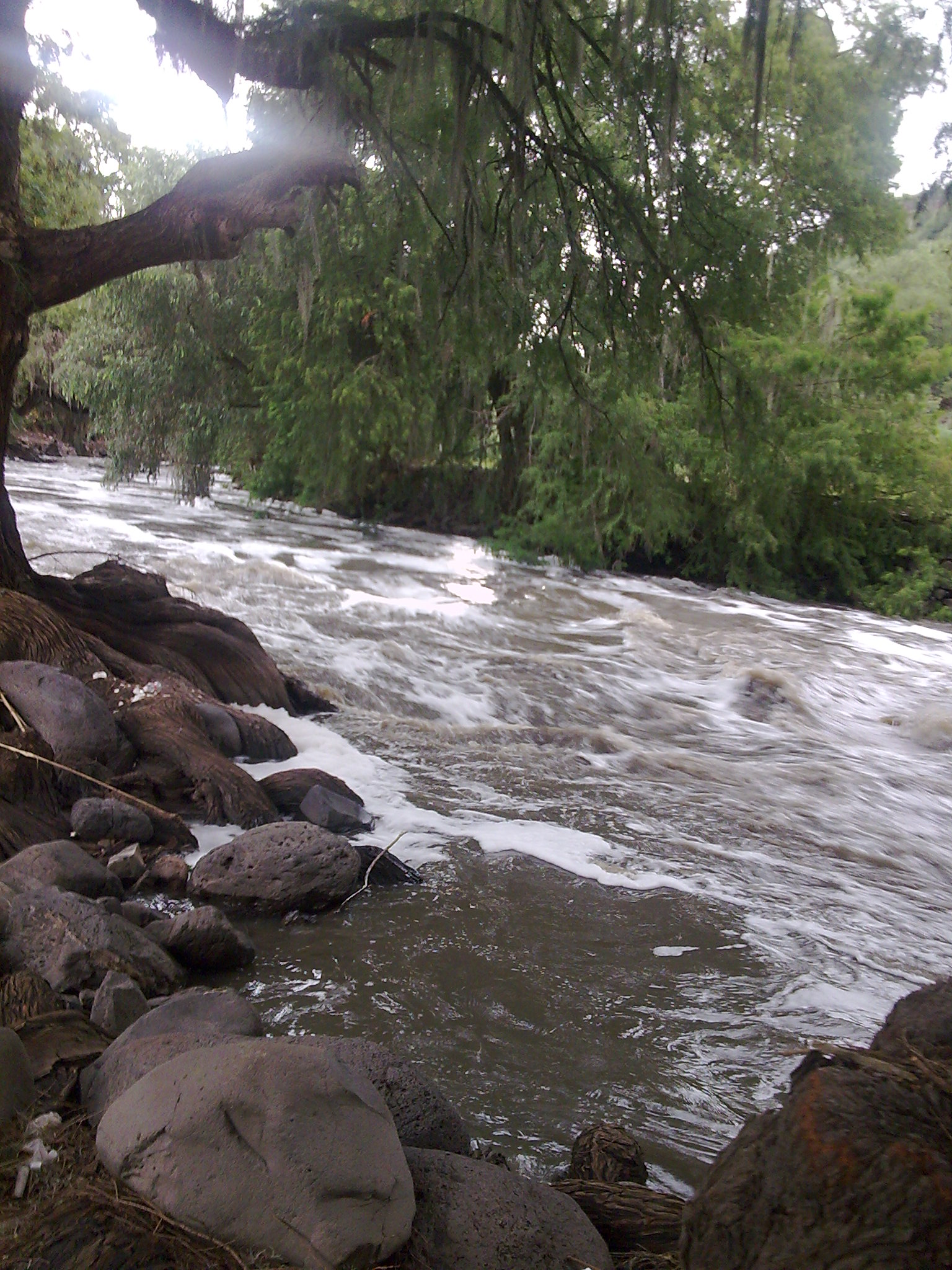 Tula River